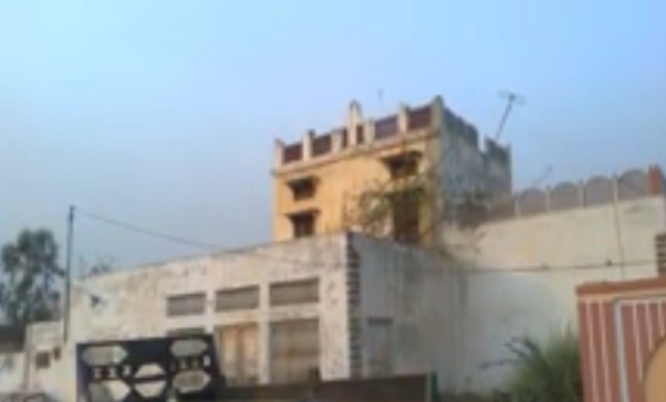 Village scene Dera Bhattian